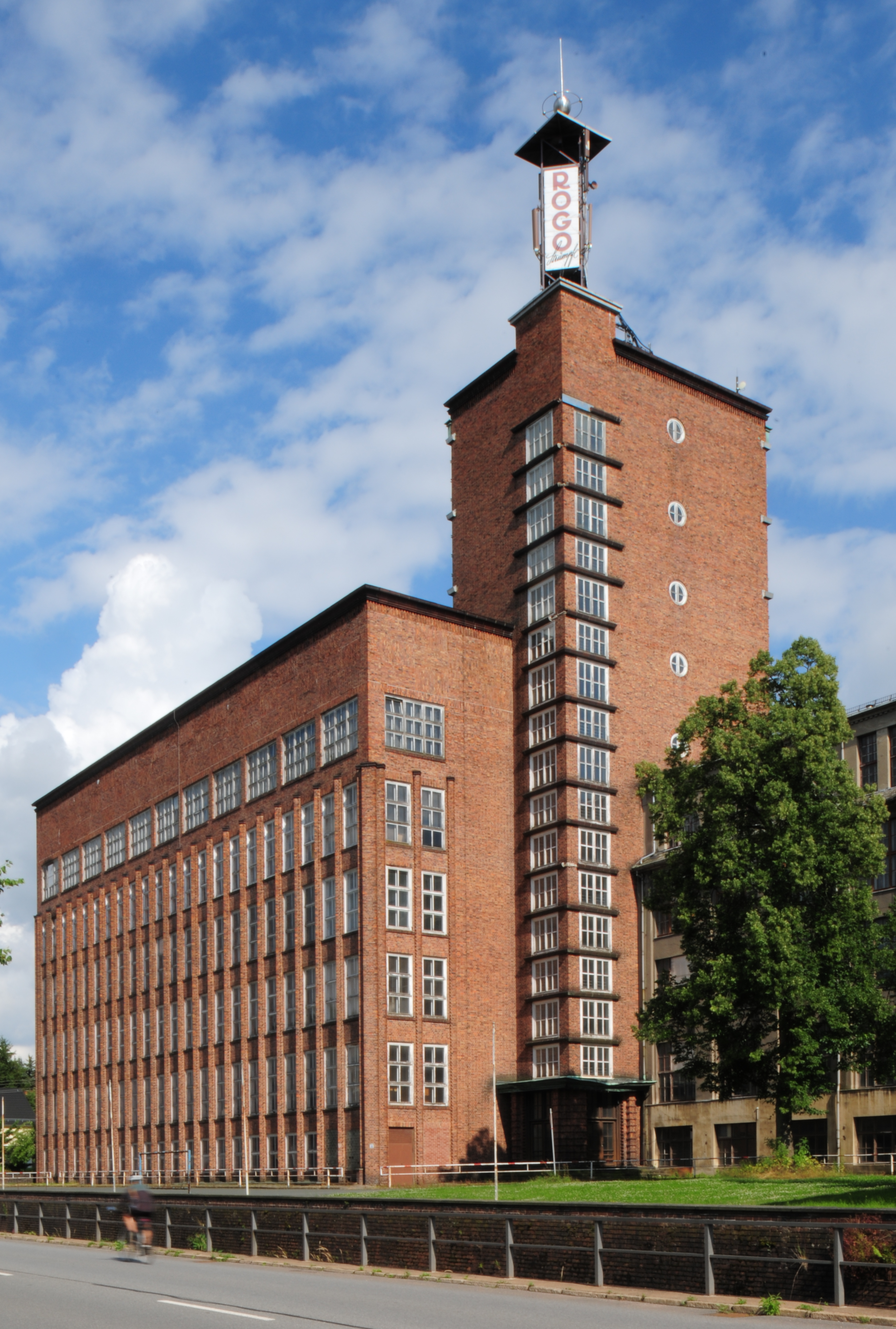 Oberlungwitz, former industrial building “Strumpffabrik Robert Götze” (ROGO), Hofer Straße, architect: Friedrich Wagner-Poltrock (district Landkreis Zwickau, Free State of Saxony, Germany)